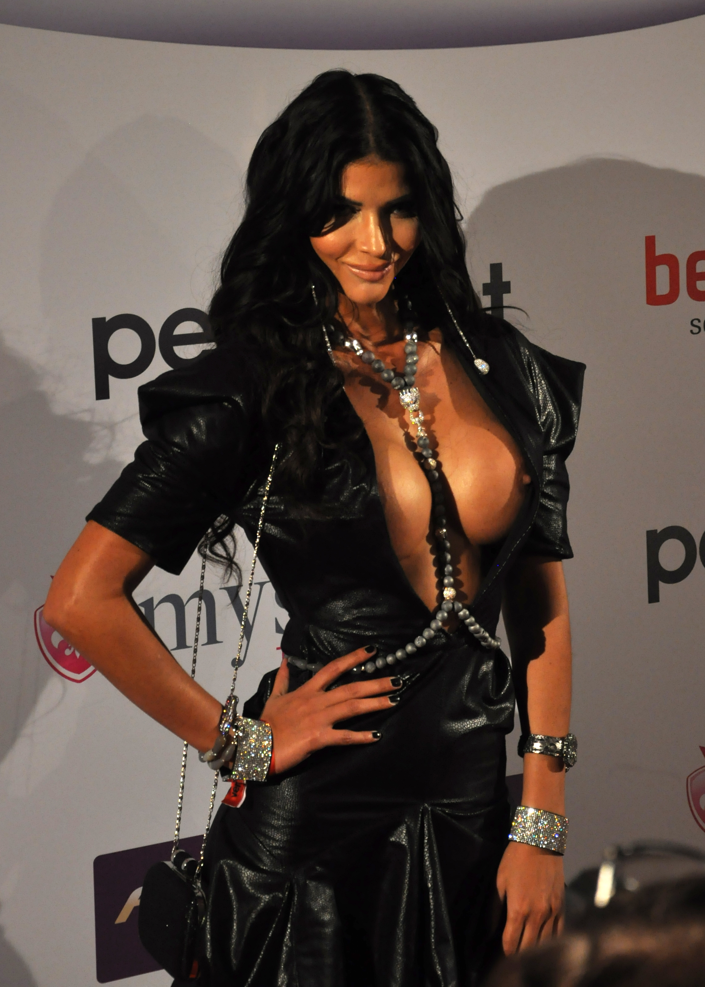 Micaela Schäfer at the ceremony of the Venus Awards 2014, Berlin